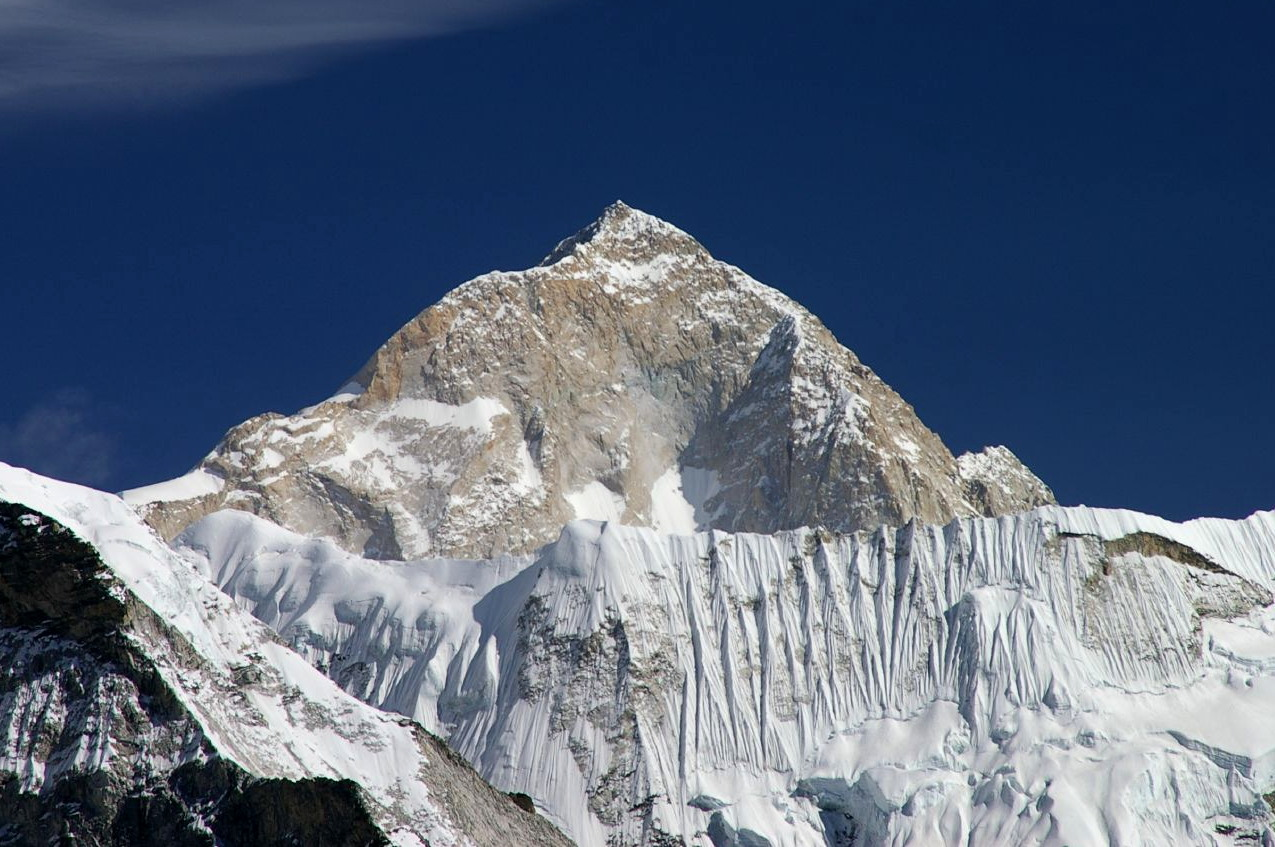 Makalu from the southwest